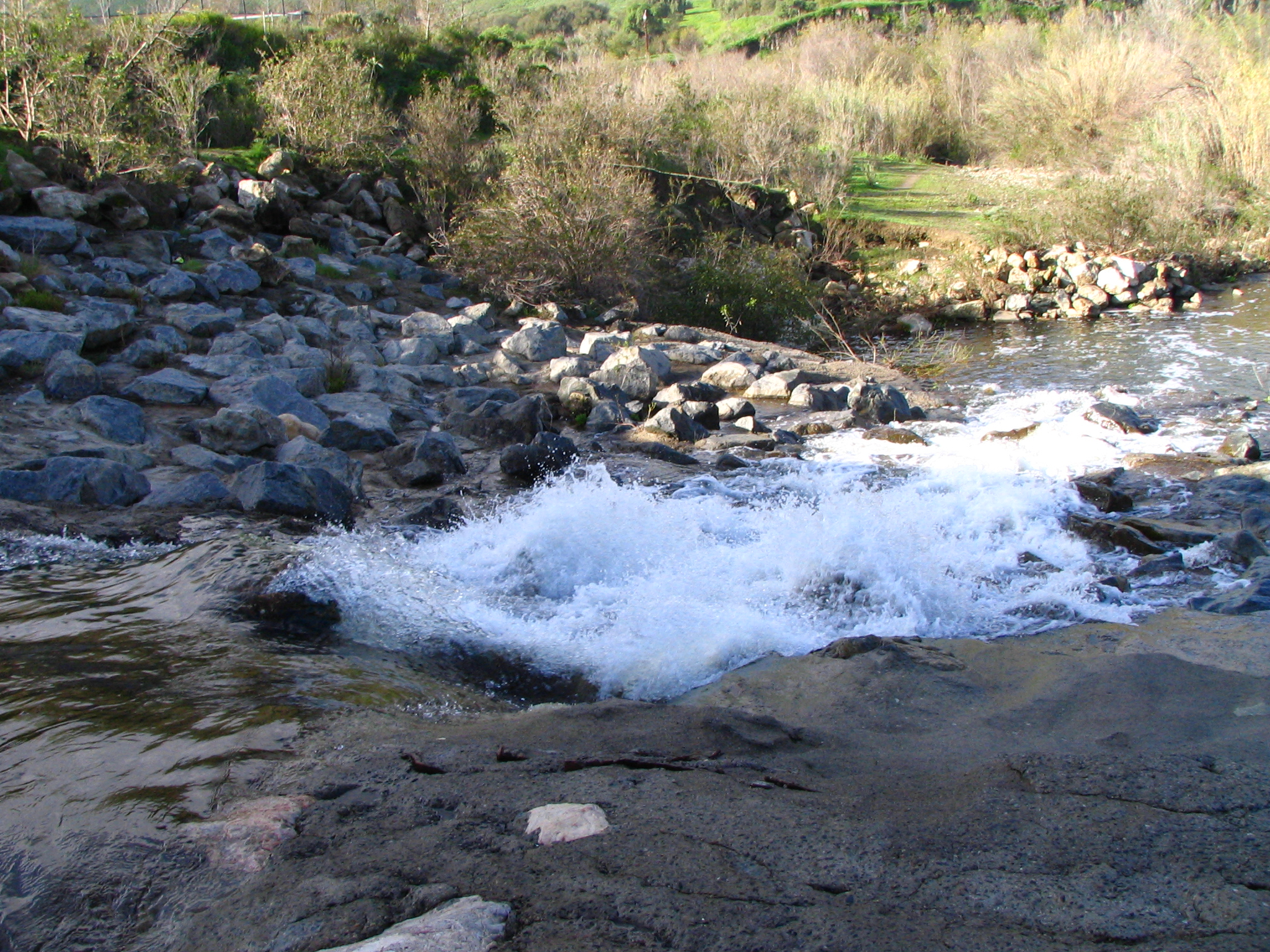 Falls on Trabuco Creek (30ft.+), CA